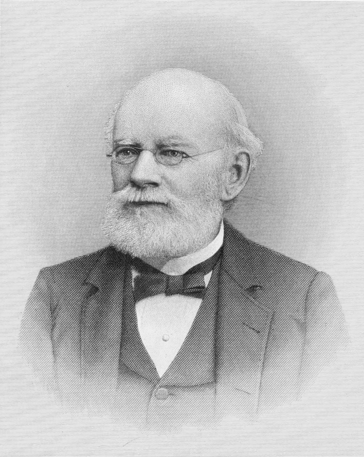 Entomologist Willam Henry Edwards